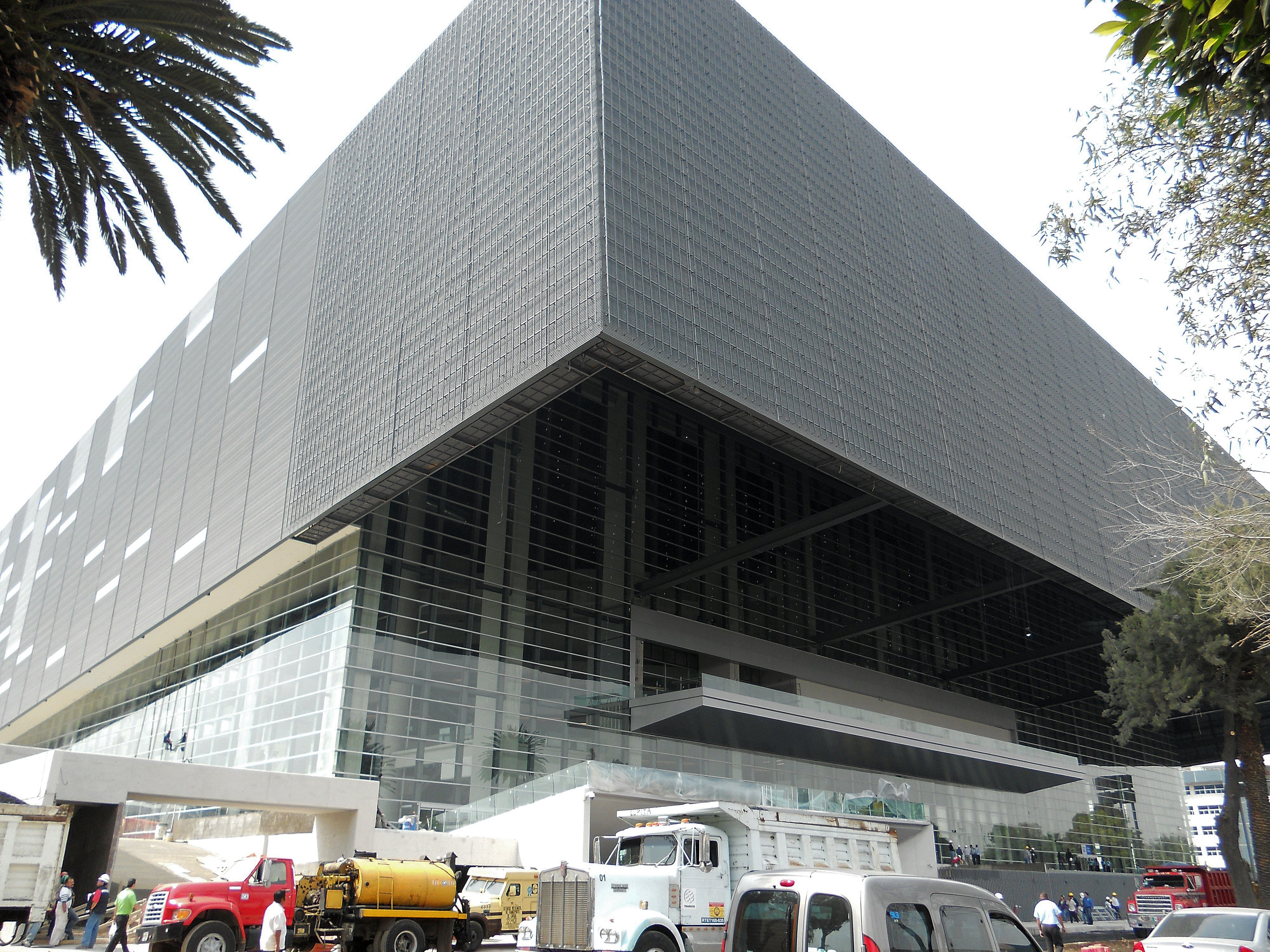 Arena Ciudad de Mexico